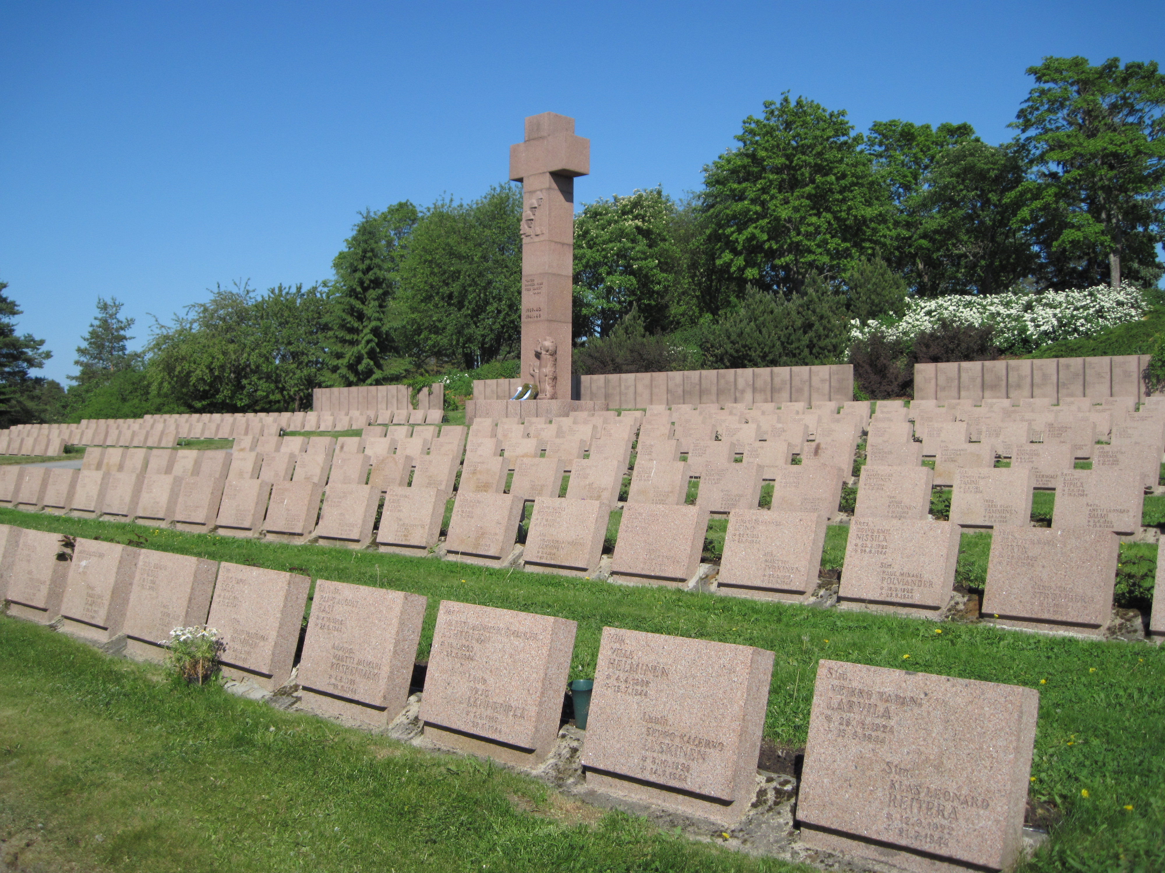 Military cemetary at Kalevankangas in Tampere, Finland